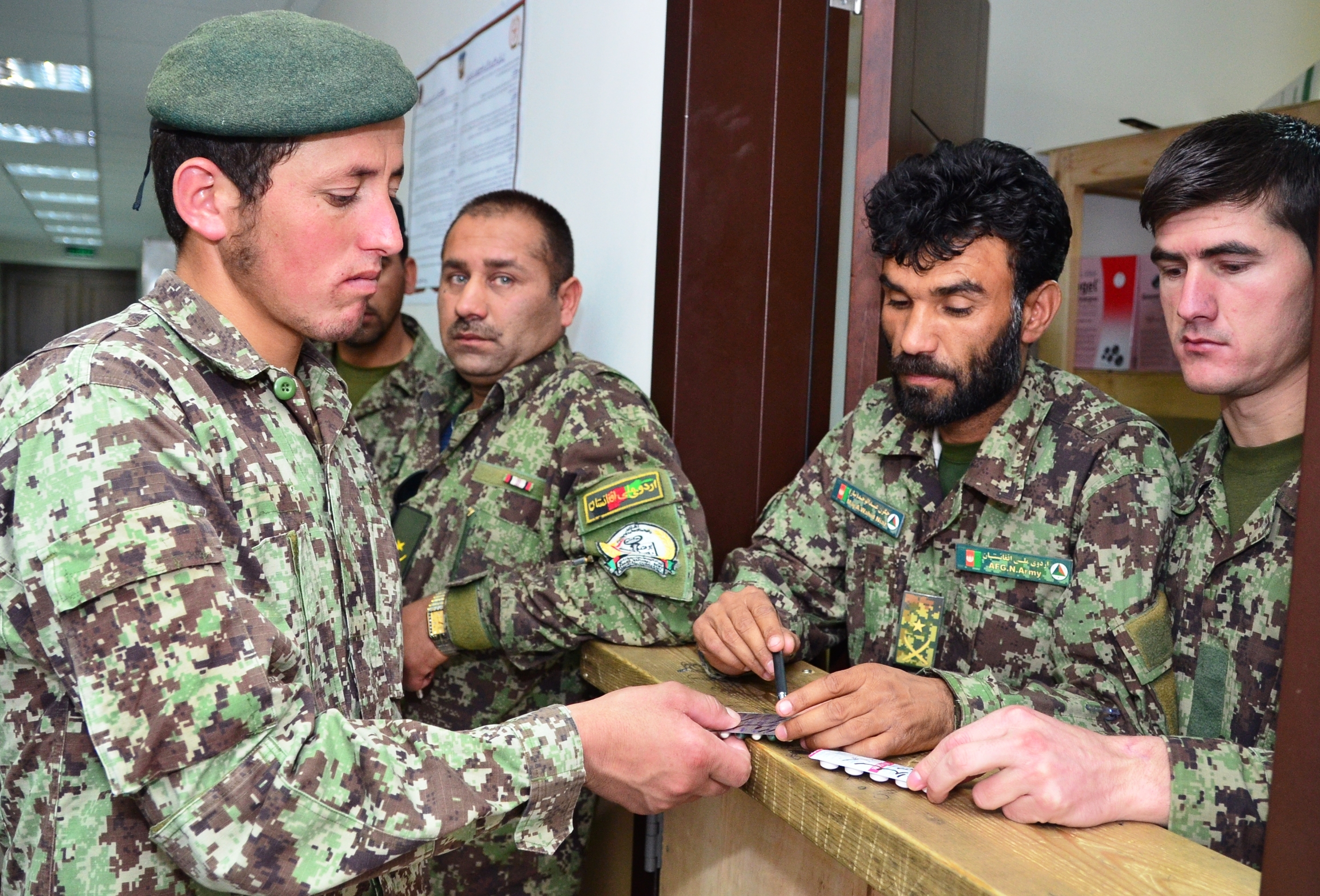 Afghan National Army (ANA) Maj. A. Wahid Naiz (center right), a pharmacist with the ANA Medical General Support Unit, and his assistant (far right) issue an ANA soldier prescribed medication during his visit to the clinic in Pawawan province, Afghanistan, July 25, 2012. (Photo ID: 646885)